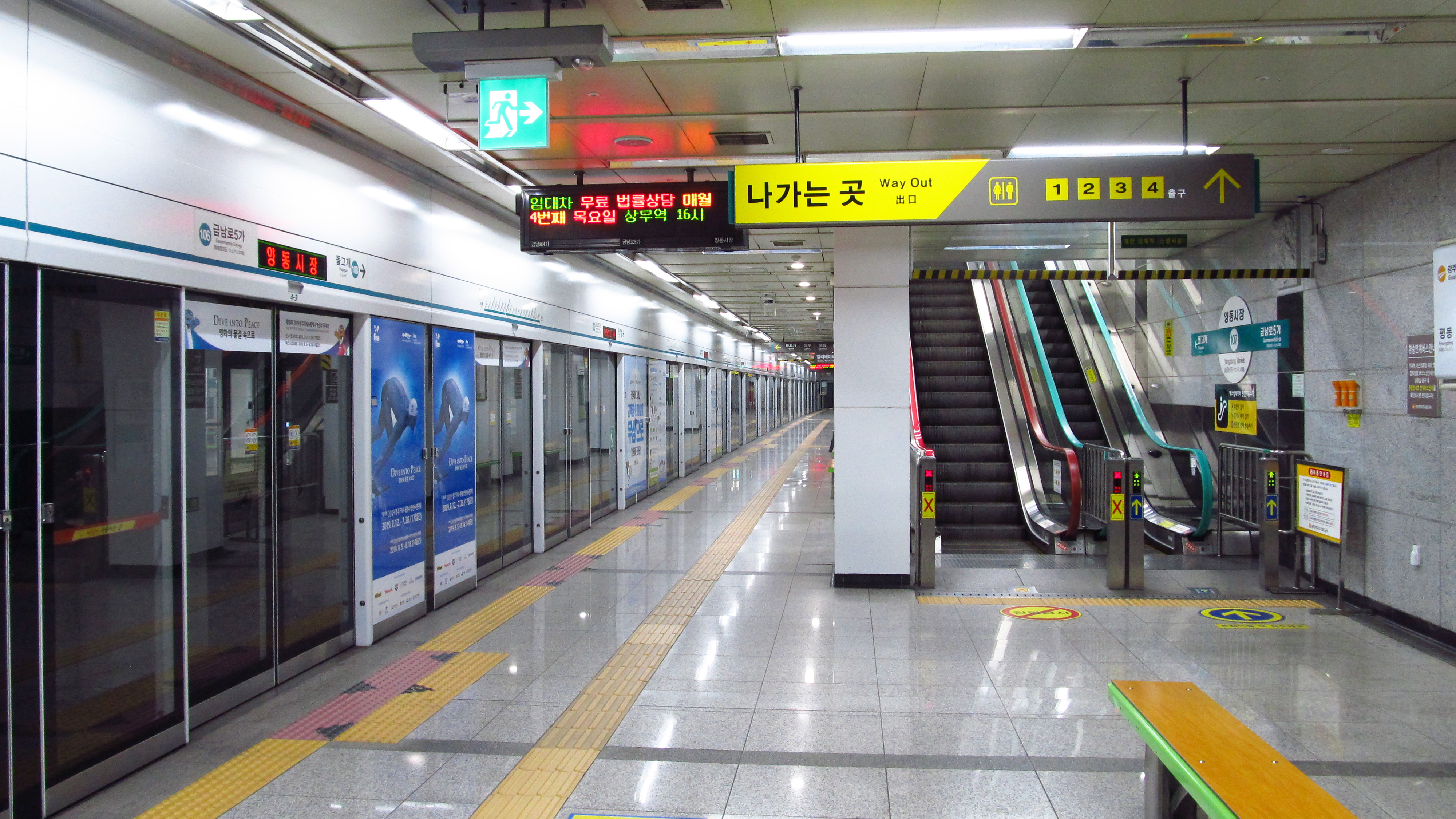 The Pyeongdong-bound platform at Yangdong Market Station on Gwangju Metro Line 1 in Seo-gu, Gwangju, Republic of Korea(South Korea)